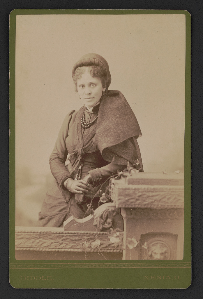 Title: Hallie Quinn Brown, educator and activist, cape draped on shoulder and wearing gloves] / Biddle, Xenia, O Abstract/medium: 1 photograph : print on card mount ; mount 17 x 11 cm (cabinet card format)